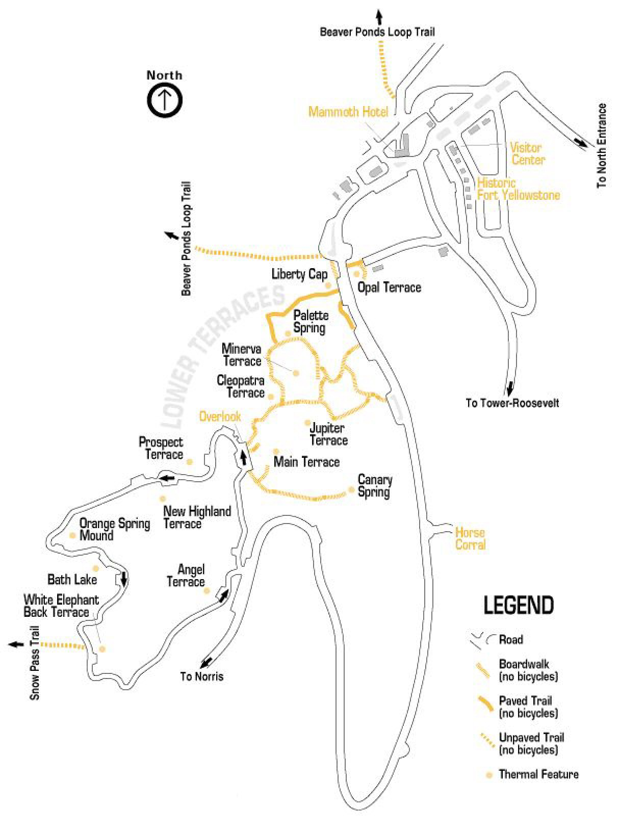 Map of Mammoth Hot Springs, Yellowstone National Park, Wyoming